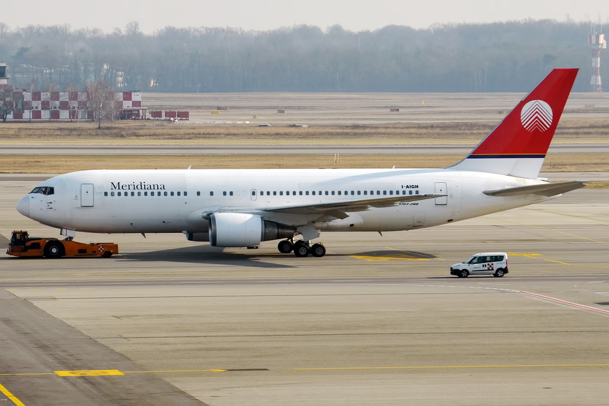 Meridiana, I-AIGH, Boeing 767-23B ER at Milan Malpensa Airport